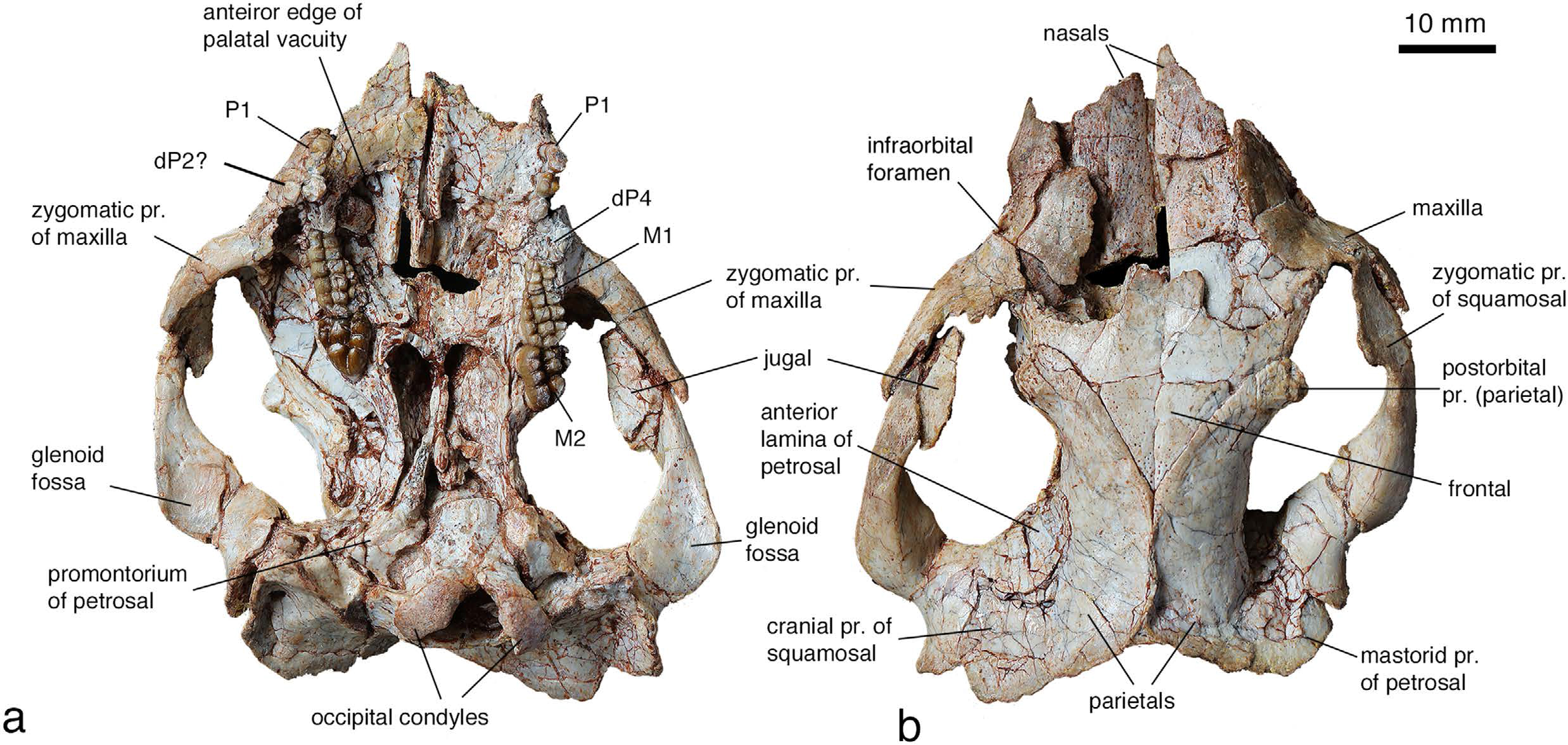 The skull of Yubaatar zhongyuanensis gen. and sp. nov. (a) Ventral view of the skull. (b) Dorsal view of the skull. The skull is partly compressed and distorted (see the text for description). Photographs taken by J.M.